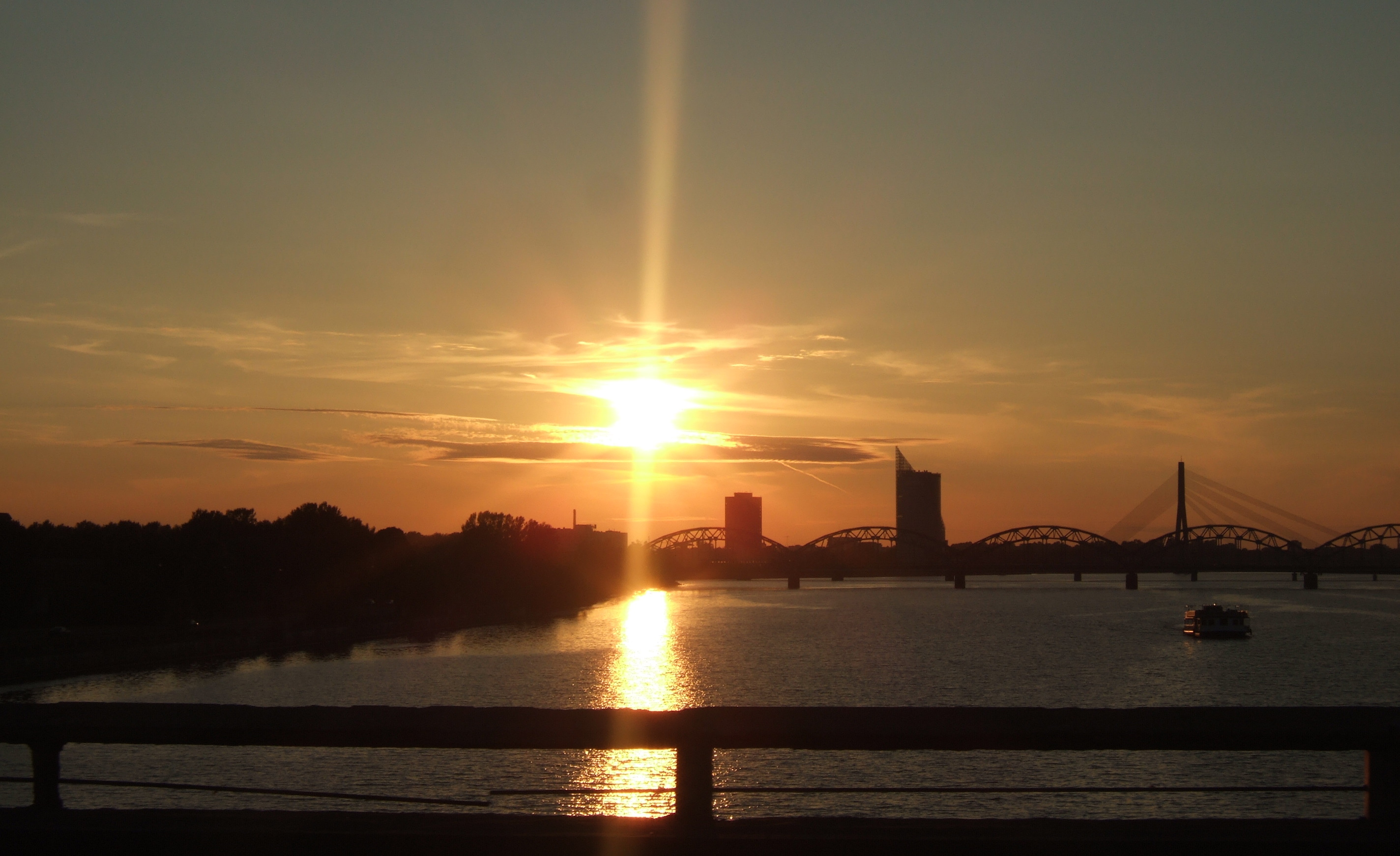 Own photograph